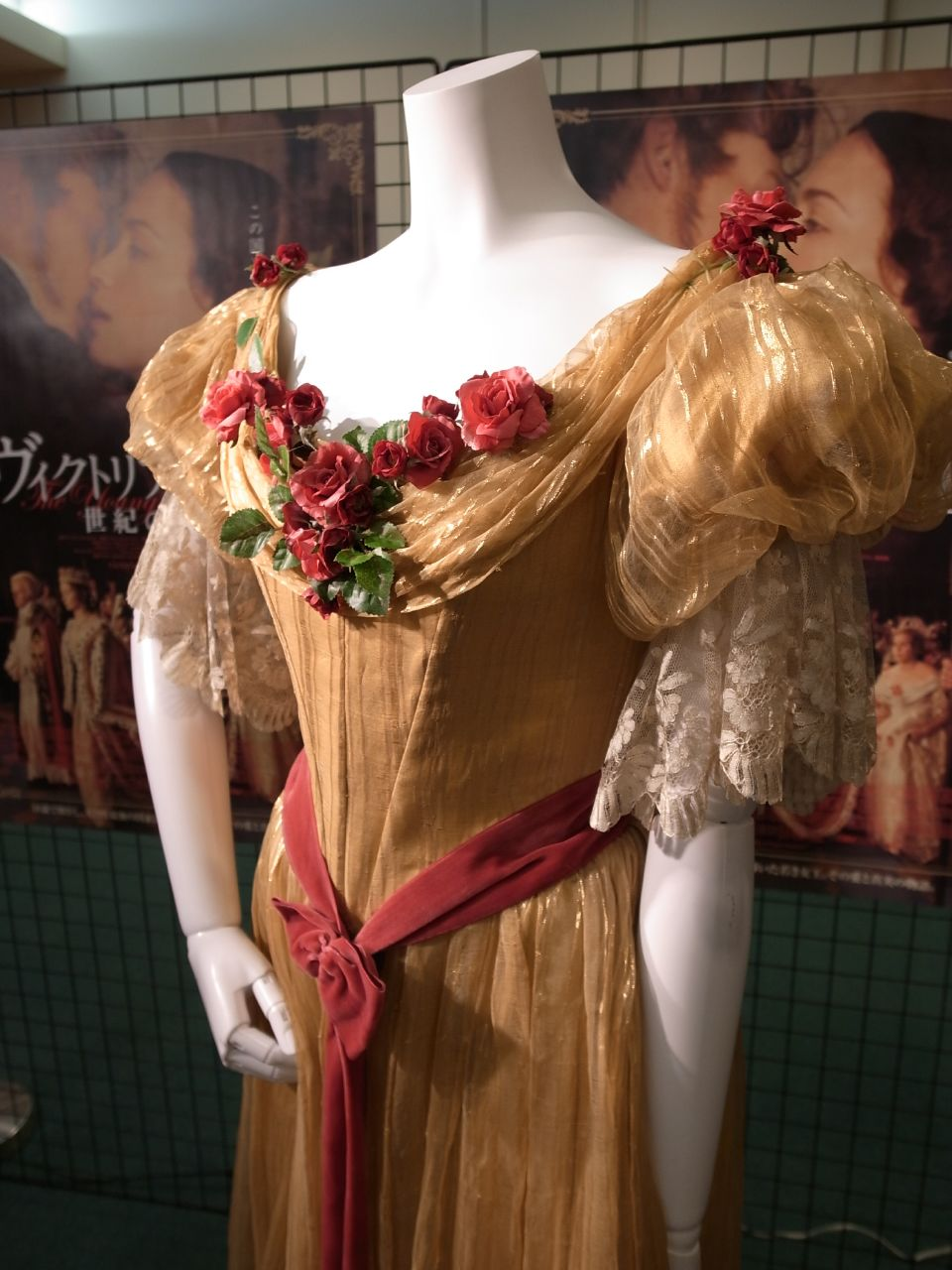 Costume worn by Emily Blunt in the film The Young Victoria. Costume designed by Sandy Powell. Displayed at Umeda Garden Cinema, Osaka, Japan.